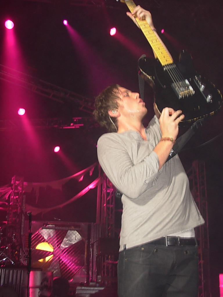 Danny Jones @ HMV Hammersmith Apollo